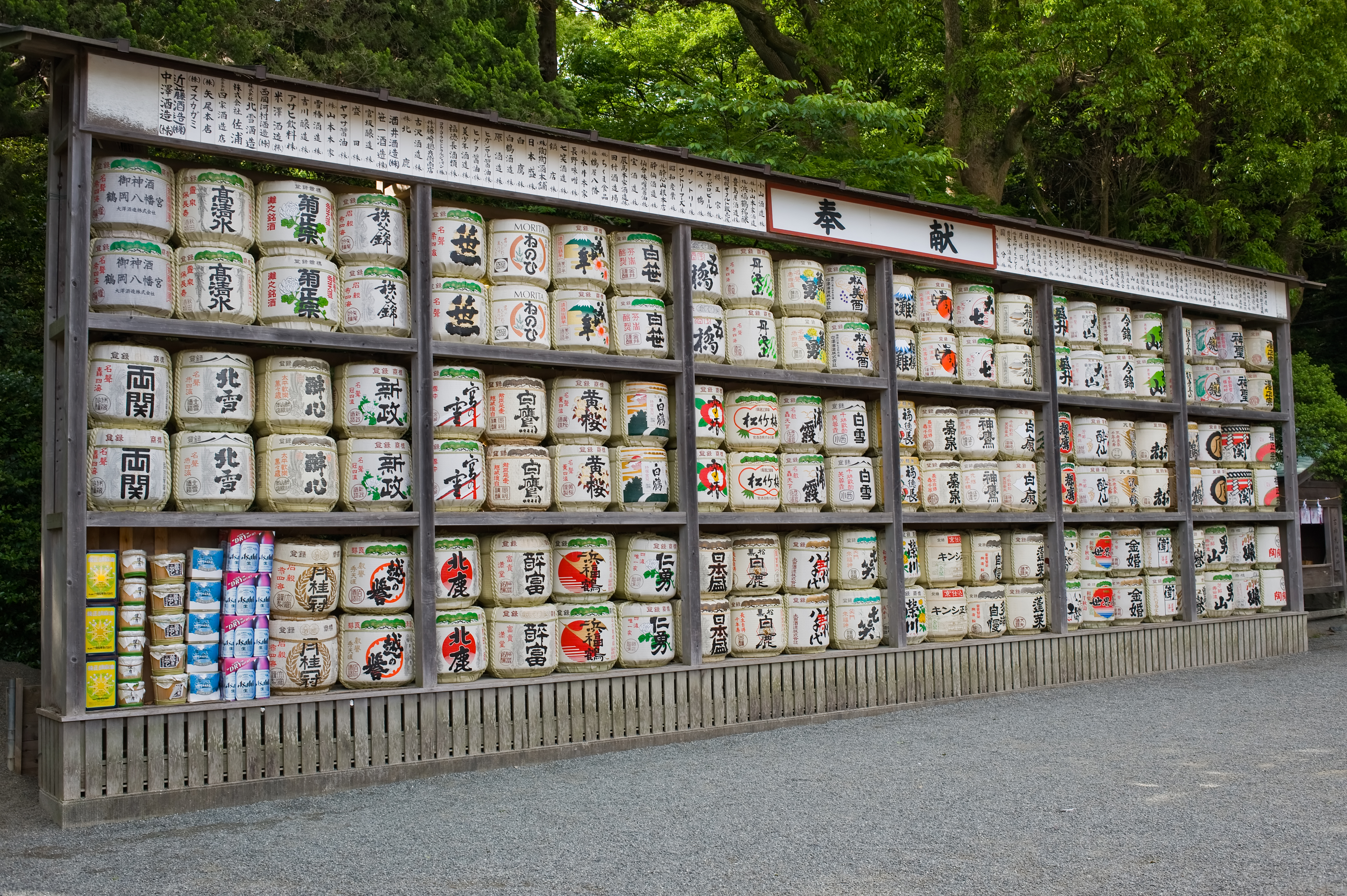 Offertory sake barrels at Tsurugaoka Hachiman-gū, Kamakura